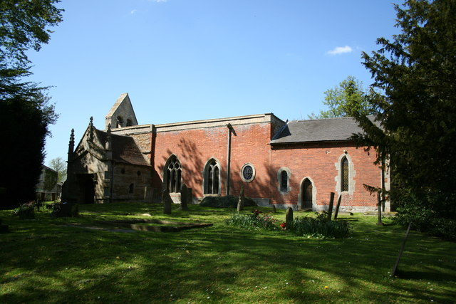 Holy Trinity parish church, West Allington, Lincolnshire, seen from the south